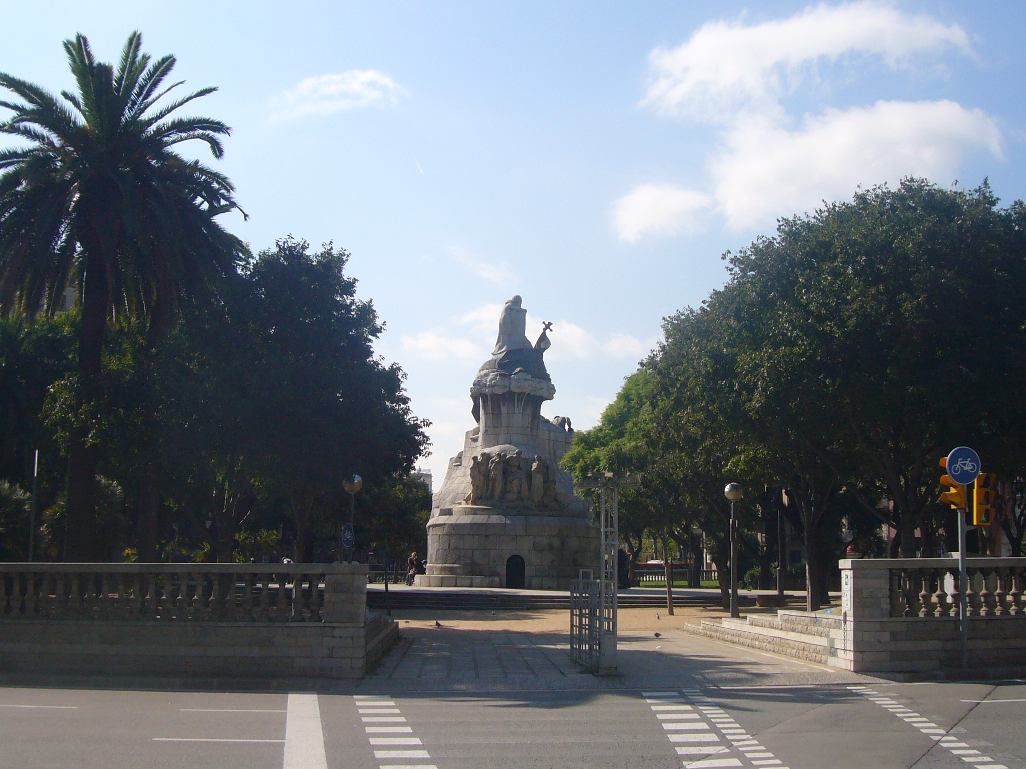 Tetuan square (Plaça de Tetuan), Barcelona. Memorial for Bartomeu Robert in the middle.